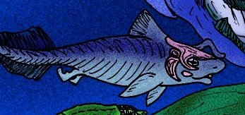 Crop of file in filename